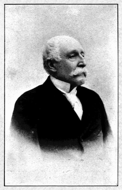 Portrait of Ján František Pálfi, last owner of Bojnice castle born 19.8.1829 - died 2.6.1908